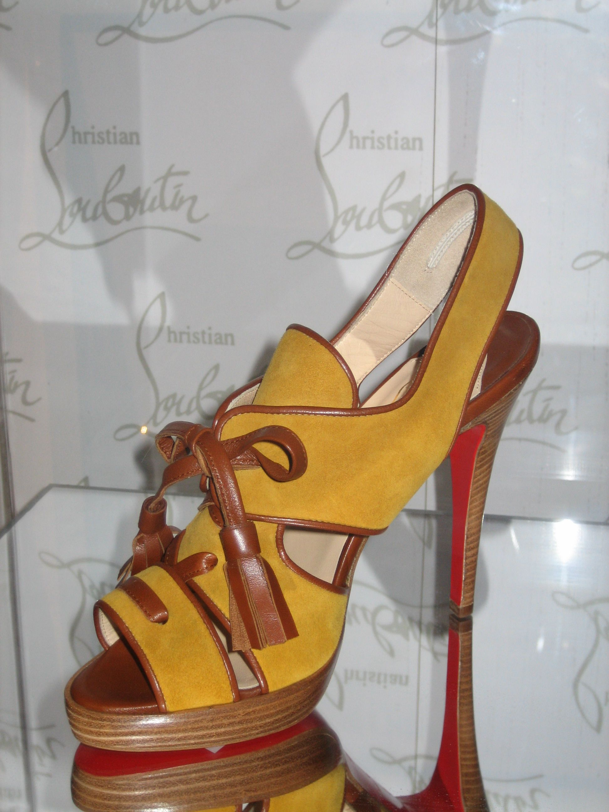 Christian Louboutin shoe at BATA Shoe Museum. The mirror display shows the red sole that his shoes are famous for.